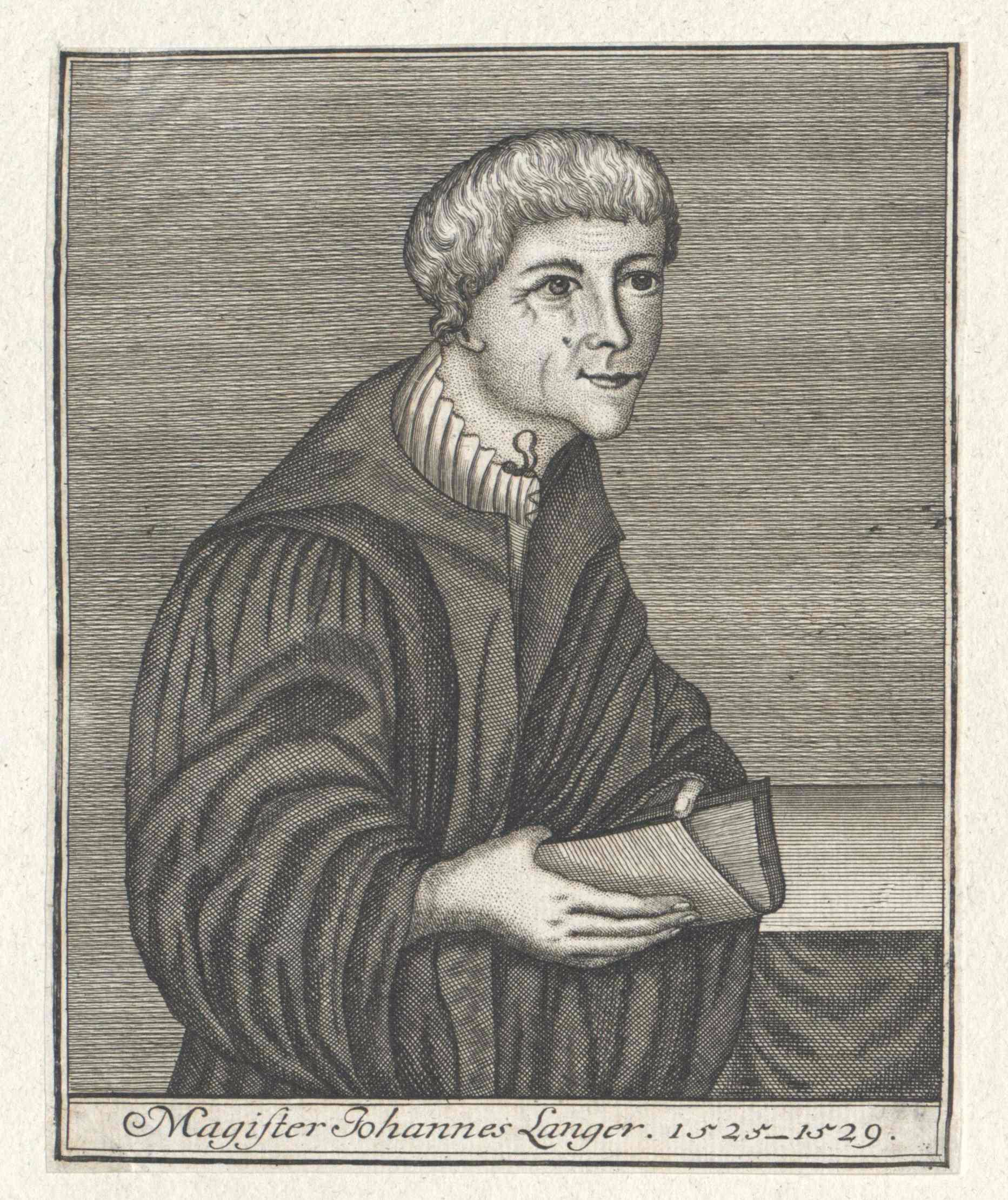 Portrait of Johannes Langer